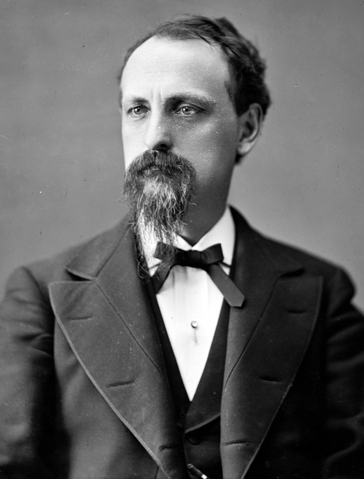 George M. Beebe, US Representative from New York